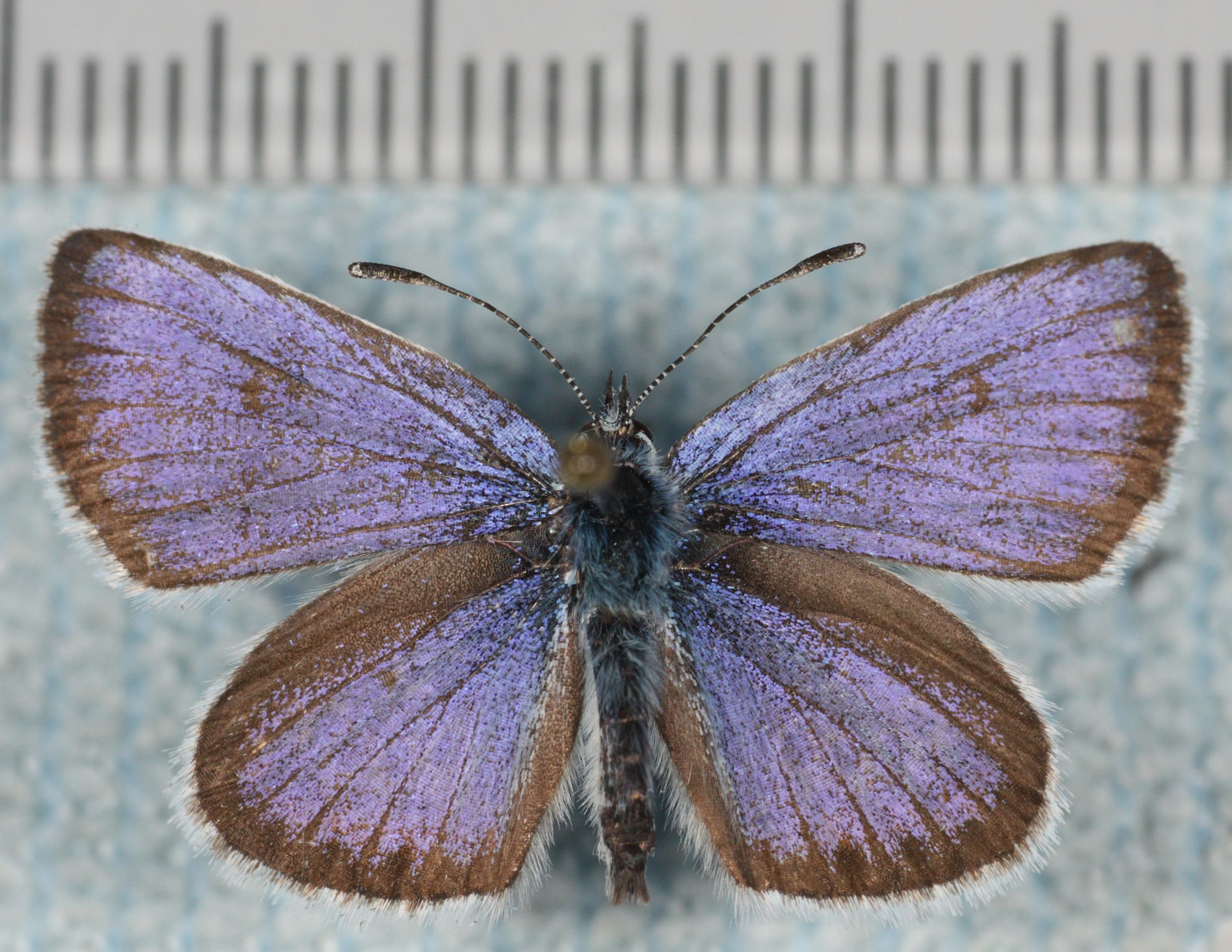 Male Silver-studded Blue Plebeius argus